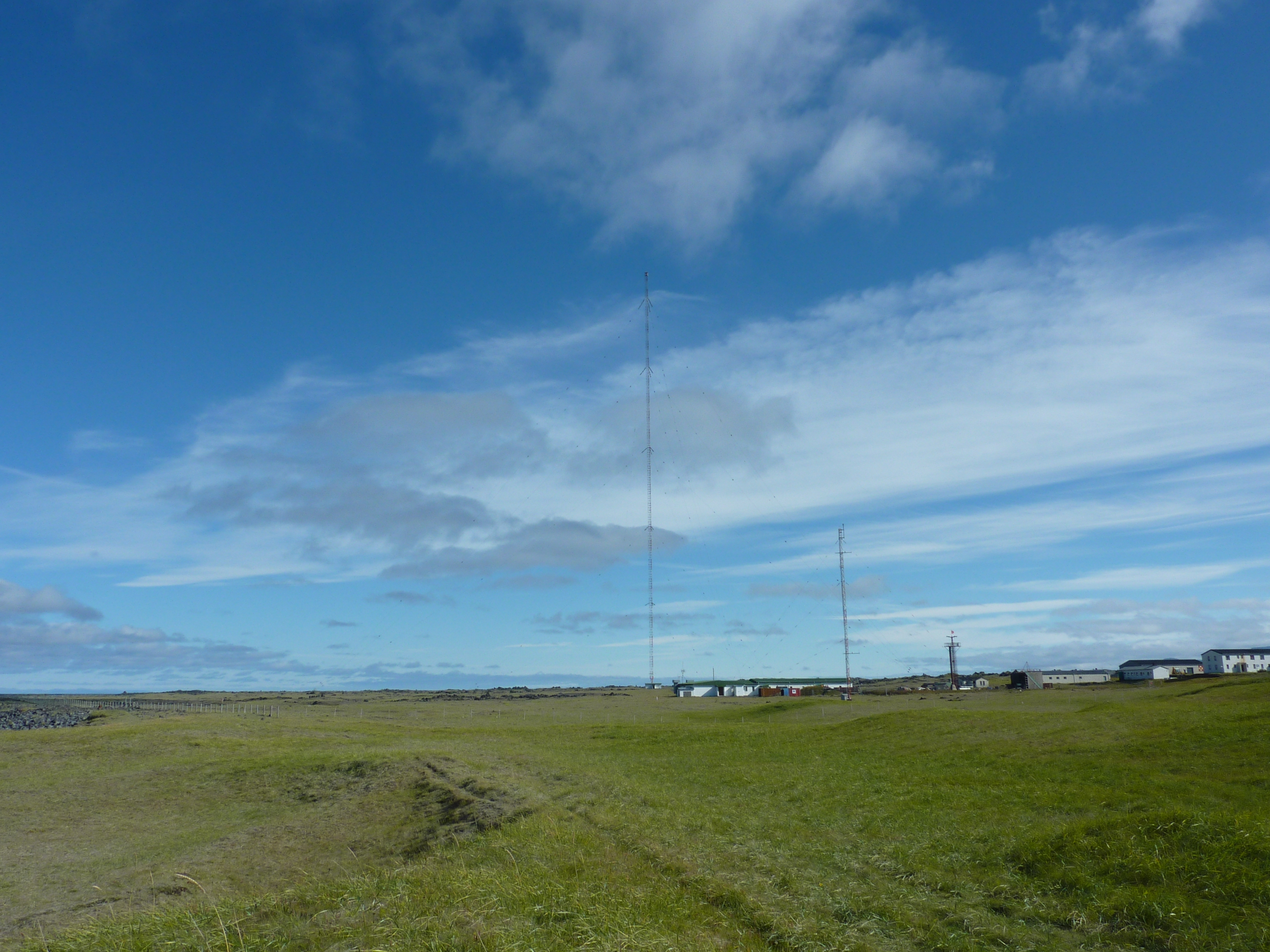 Longwave mast in Gufuskálar near Hellisandur, Iceland